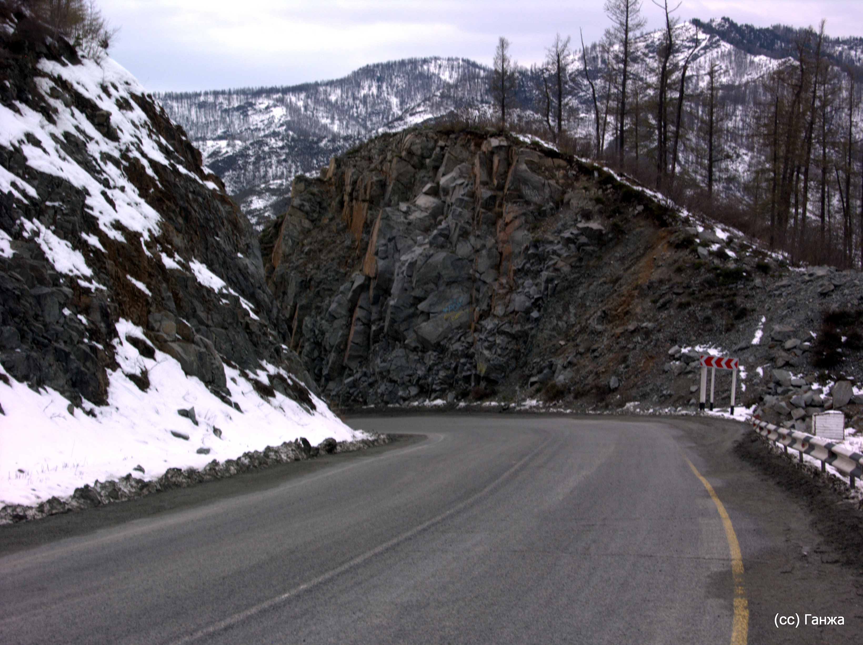 Chike-Taman Pass.